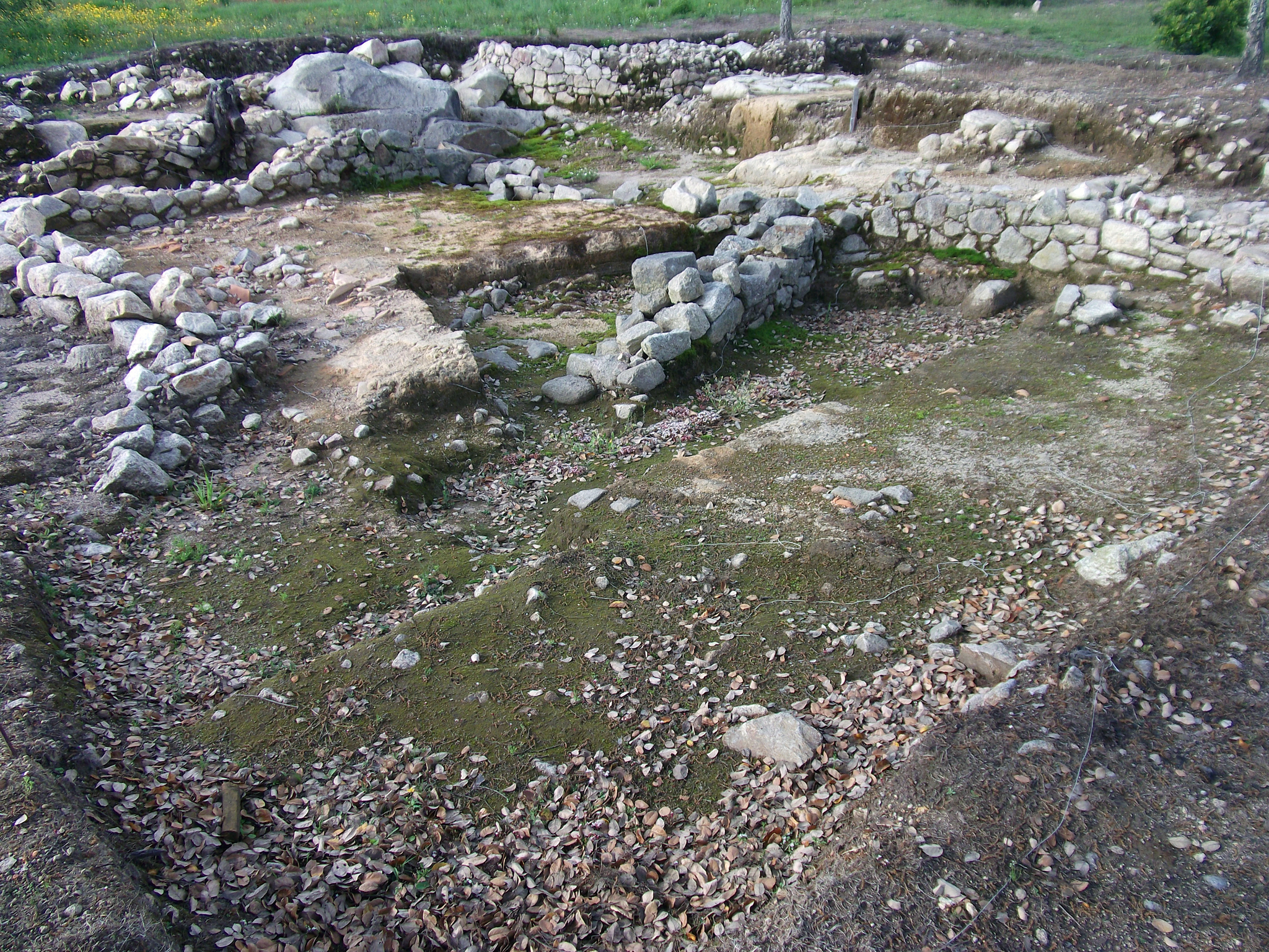 new archaeological research in Cividade de Terroso